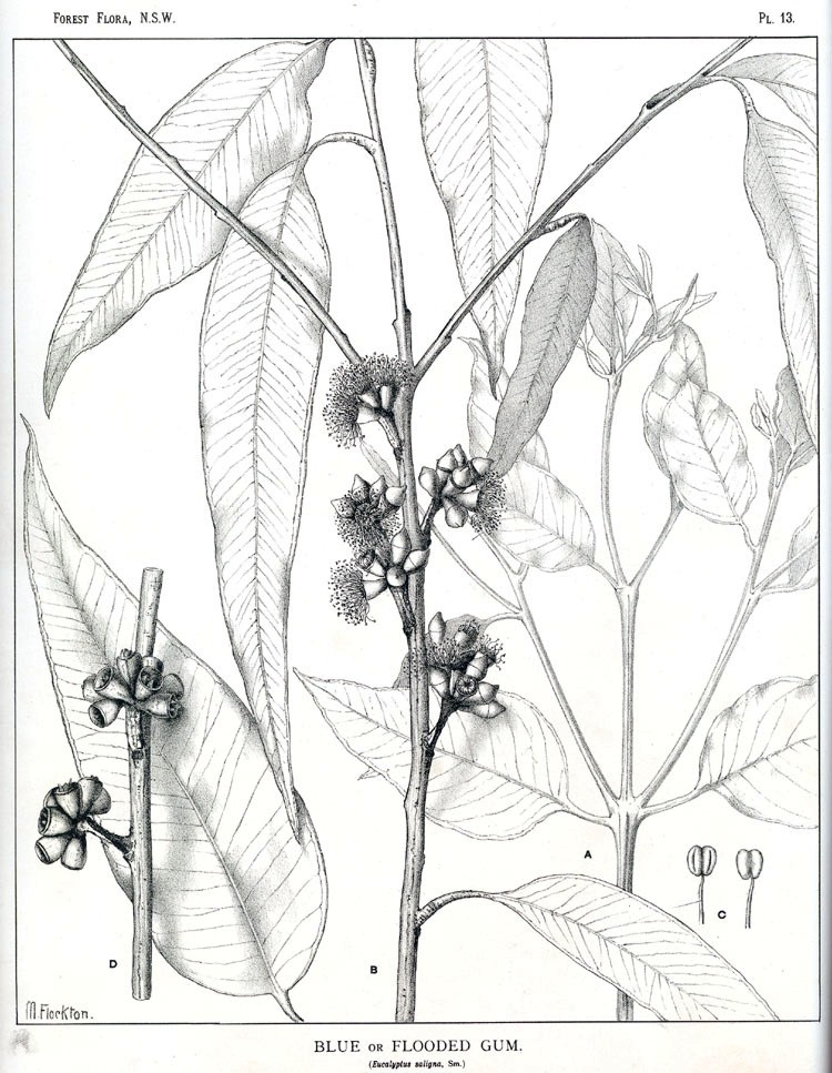 Eucalyptus saligna, Sm., Plate 13 from "Forest Flora of New South Wales" by Joseph Henry Maiden (1859–1925)